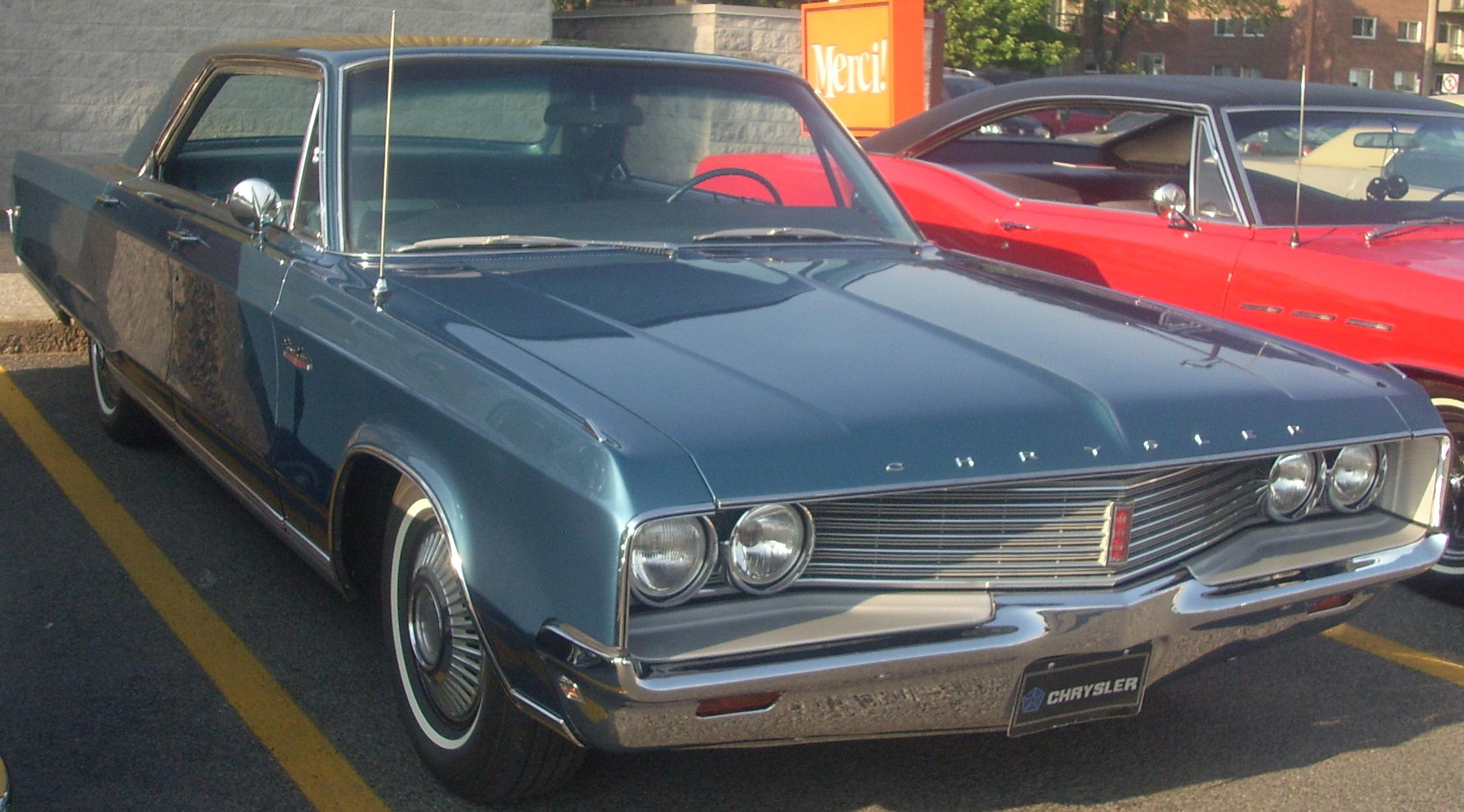 Chrysler Newport Custom 4-door hardtop photographed in Montreal, Quebec, Canada at A&W St-Léonard.